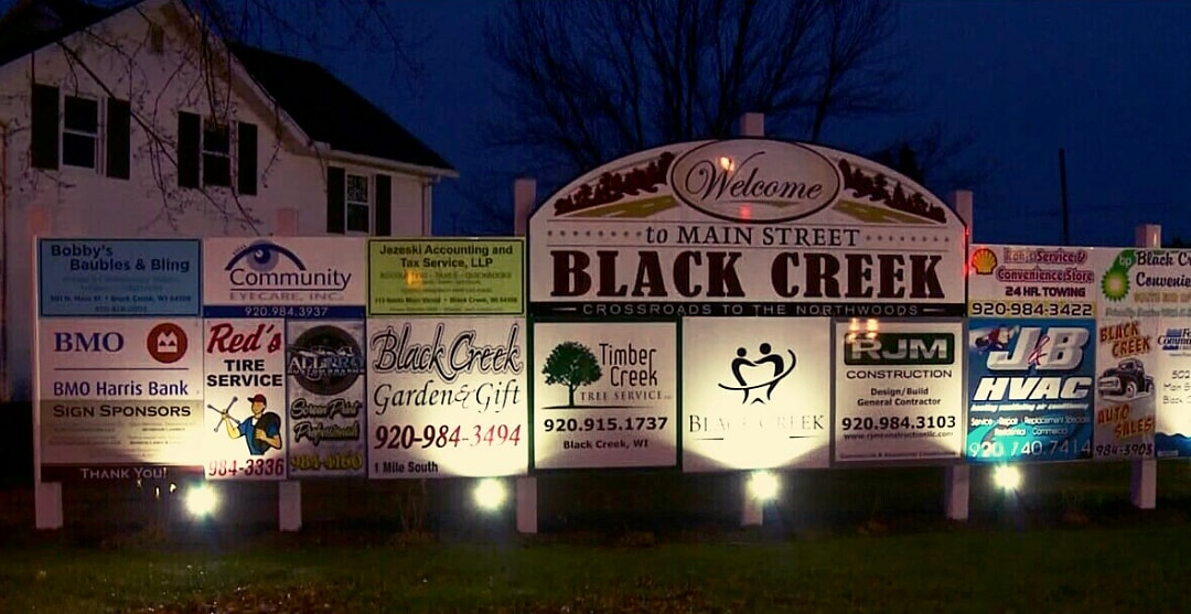 New business association sign, as of 2015, to promote Black Creek, Wisconsin merchants. Sign is included in downtown district revitalization project effort.